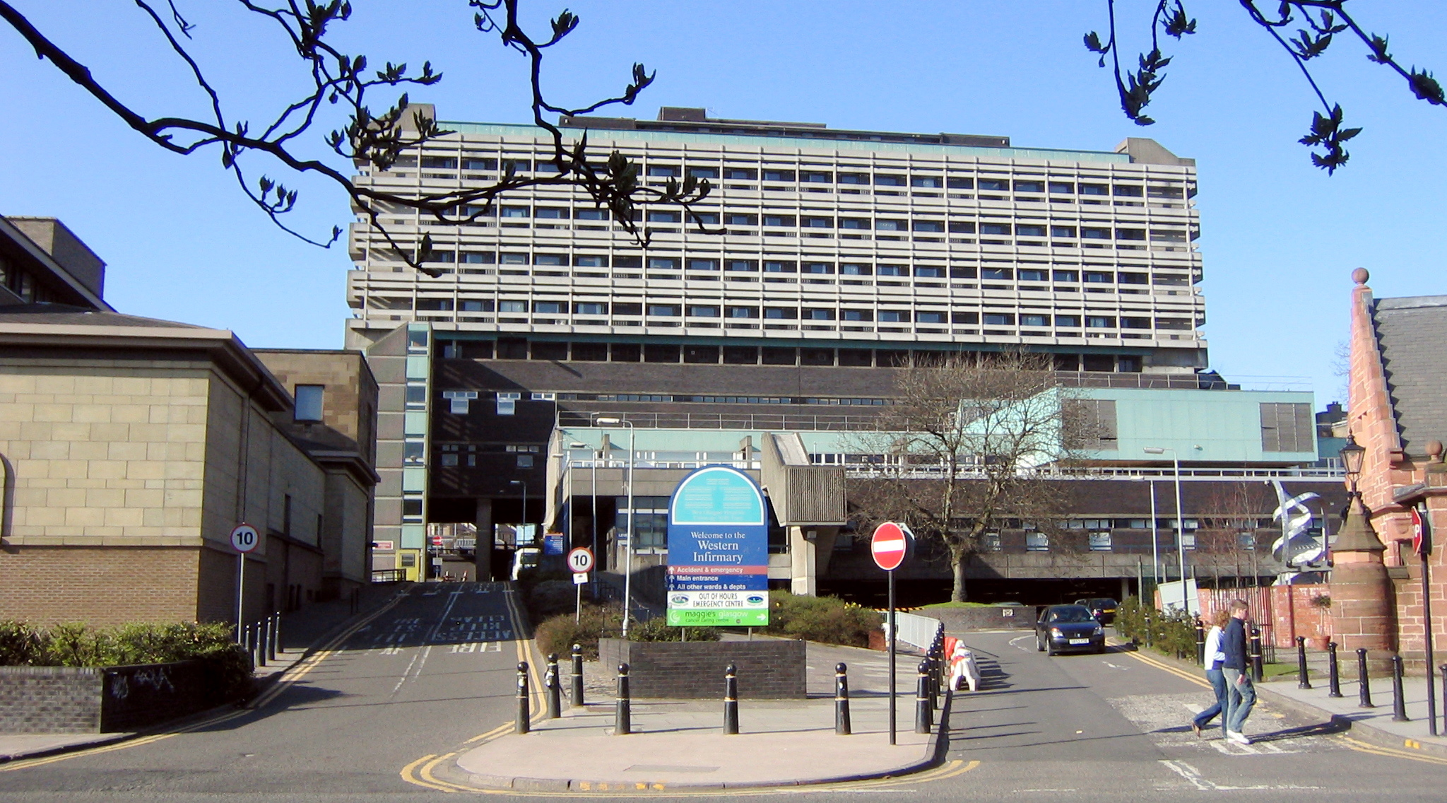 Photo of Glasgow's Western Infirmary taken by me, Alistair McMillan, on Friday 21 April 2006.